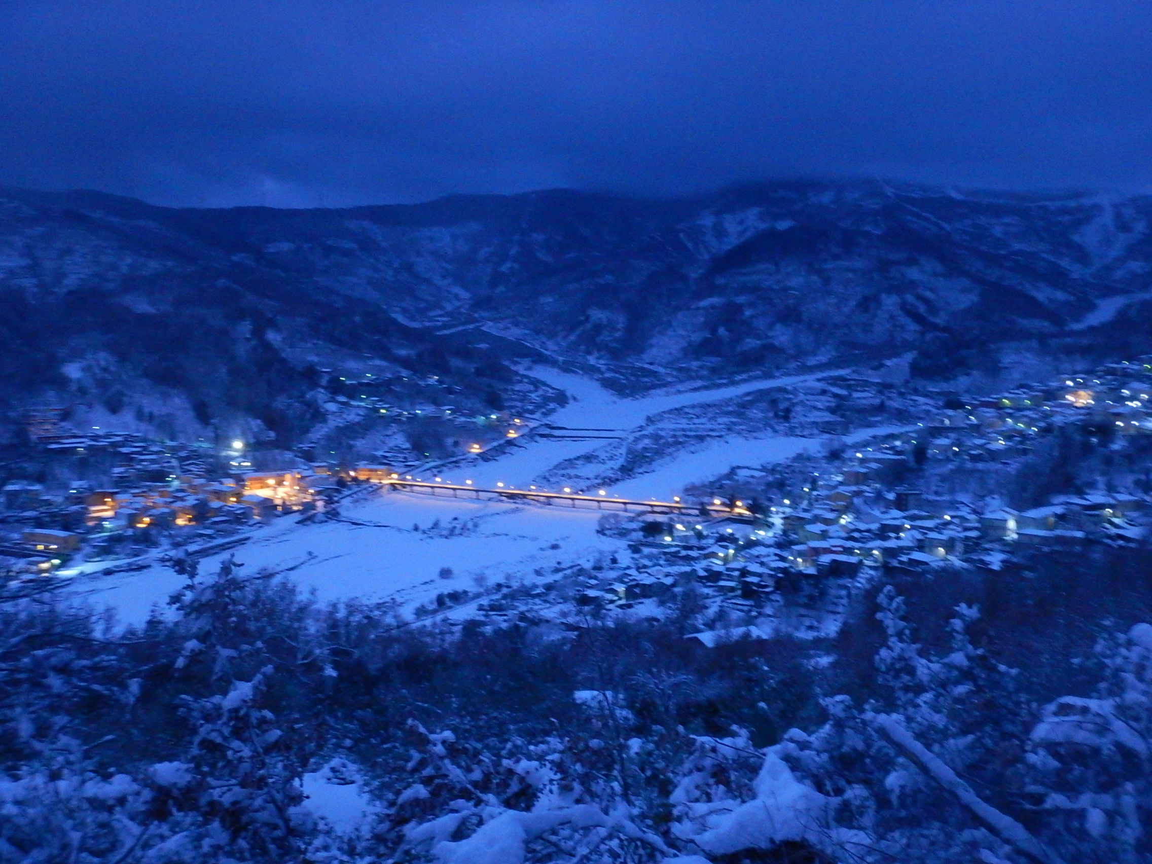 Fondachelli Fantina, winter atmosphere, Sicily